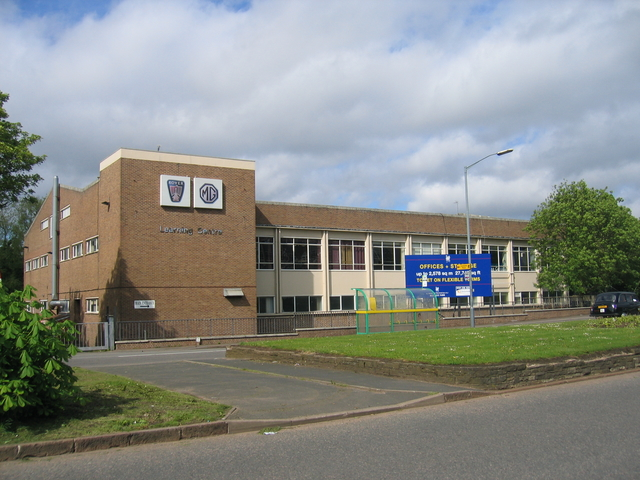 Former Rover Learning Centre, Longbridge. Situated in Bristol Road South by the roundabout junction with Lickey Road and forming part of the Longbridge Car plant site. It is now available for rent or sale!